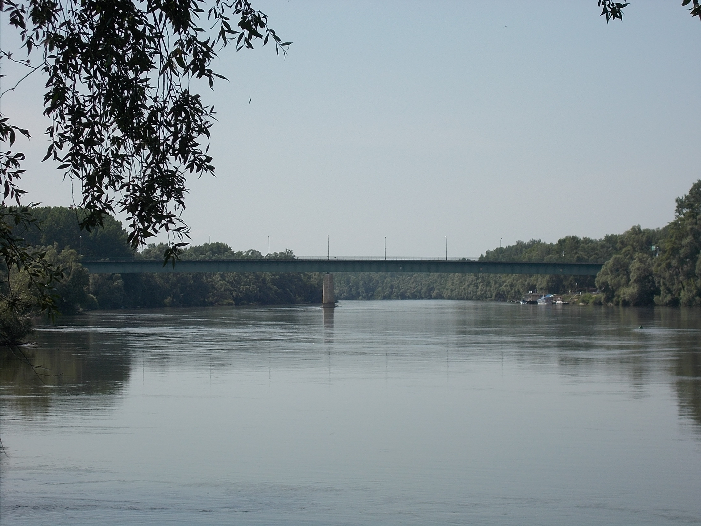 View at the Drava river near border passage Donji Miholjac (Croatia)-Dravaszabolcs (Hungary).